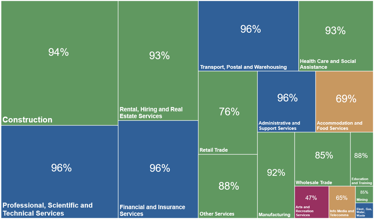 Businesses reported whether they were actively trading; for those not trading they indicated whether this was due to COVID-19. Overall, 90% of Australian businesses reported that they were operating in the week commencing 30 March. The area of each segment in the diagram below shows the share of each industry division in the Australian business population. The figures within the segments represent the proportion of businesses operating in each industry division in the week commencing 30 March. Red = less than 50% of businesses currently trading. Yellow = 50-75% of businesses currently trading. Green = 75-95% of businesses currently trading. Blue = greater than 95% of businesses currently trading.